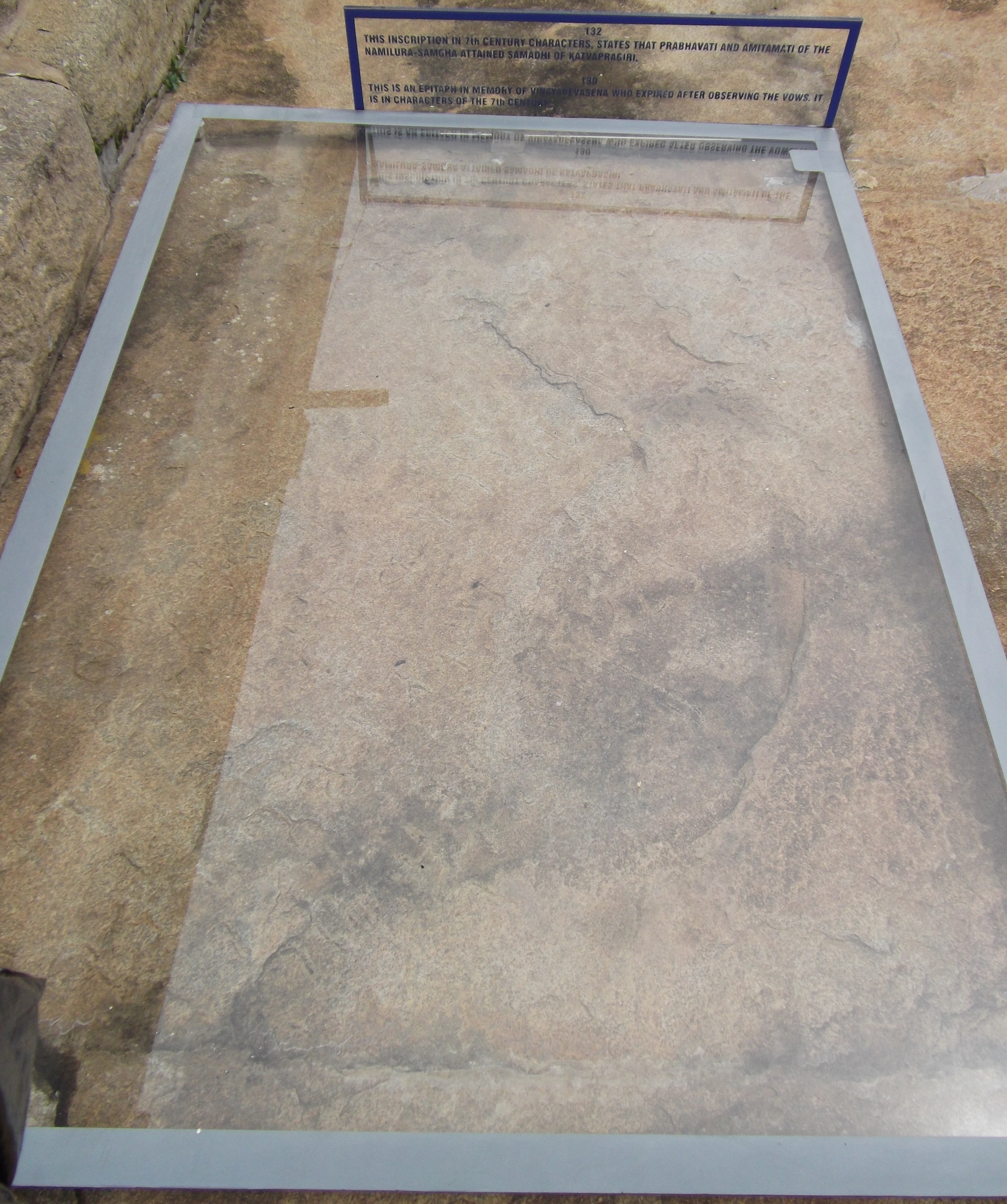 Sallekhanā inscription at Shravanbelgola. Inscription (130) is in characters of the 7th century.